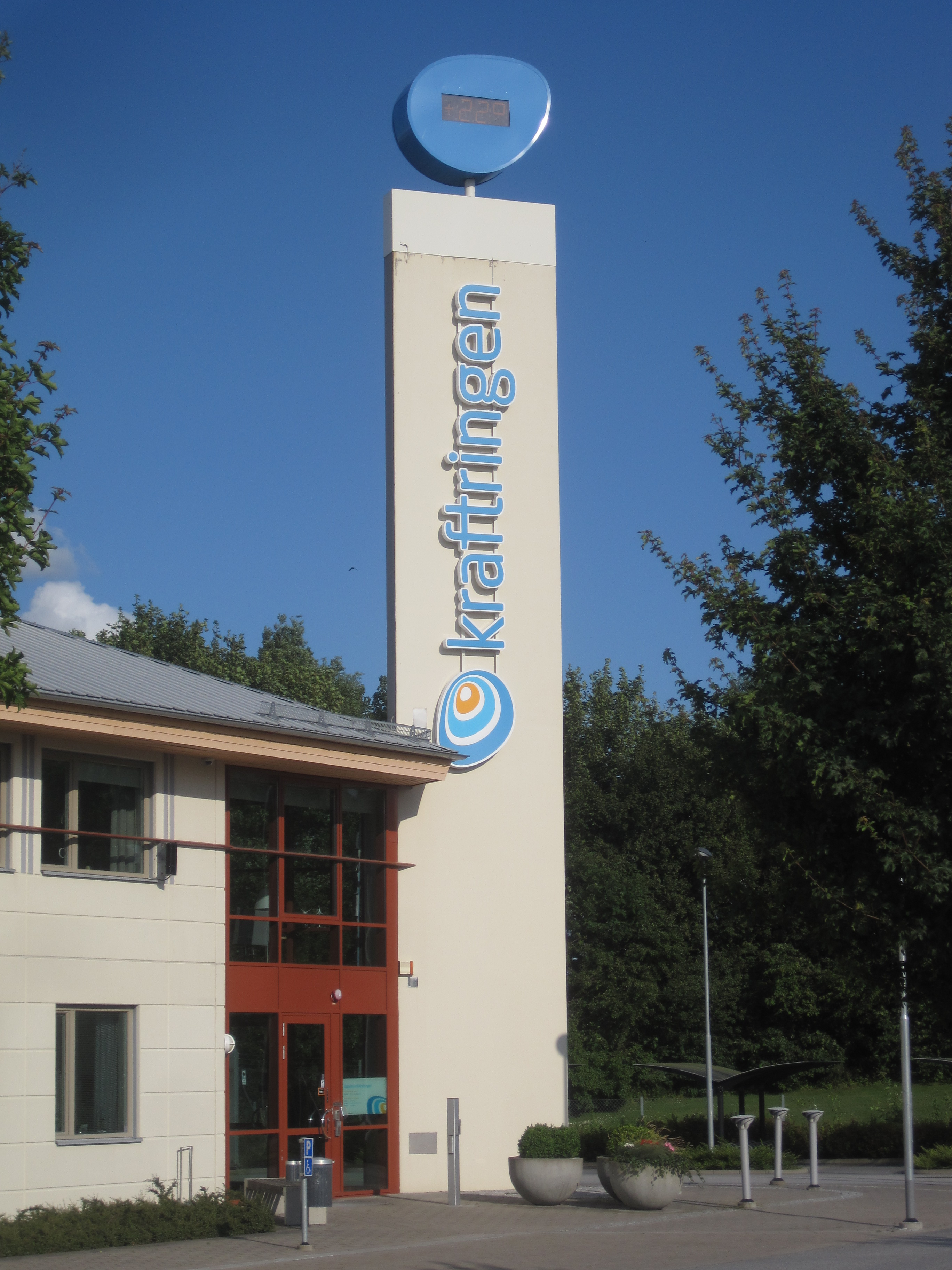 The entrance to the office of the Swedish energy company Kraftringens (formerly Lunds Energi in Lund.